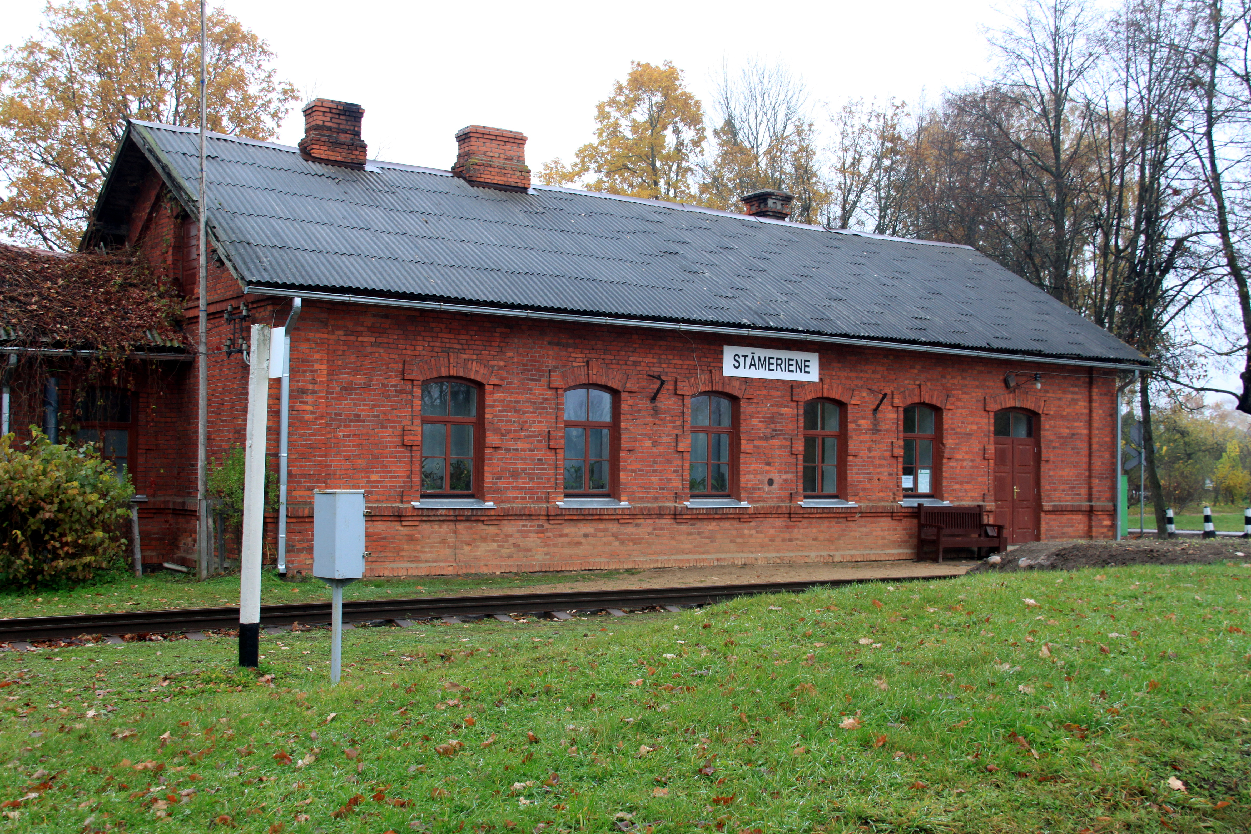 Stāmeriena railway station on Gulbene–Alūksne lineLatviešu: Stāmerienas stacija